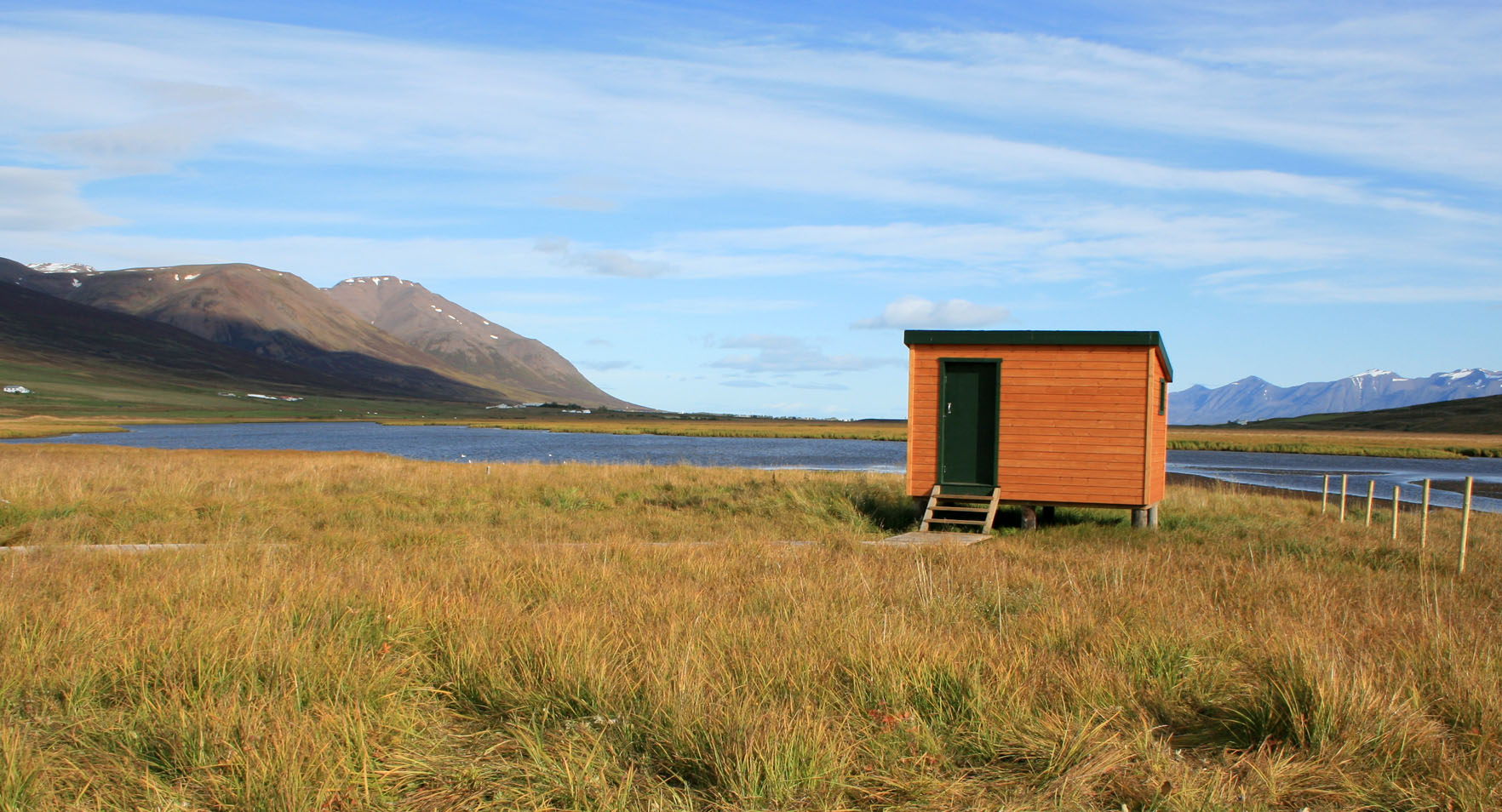 Svarfaðardalur natural reserve